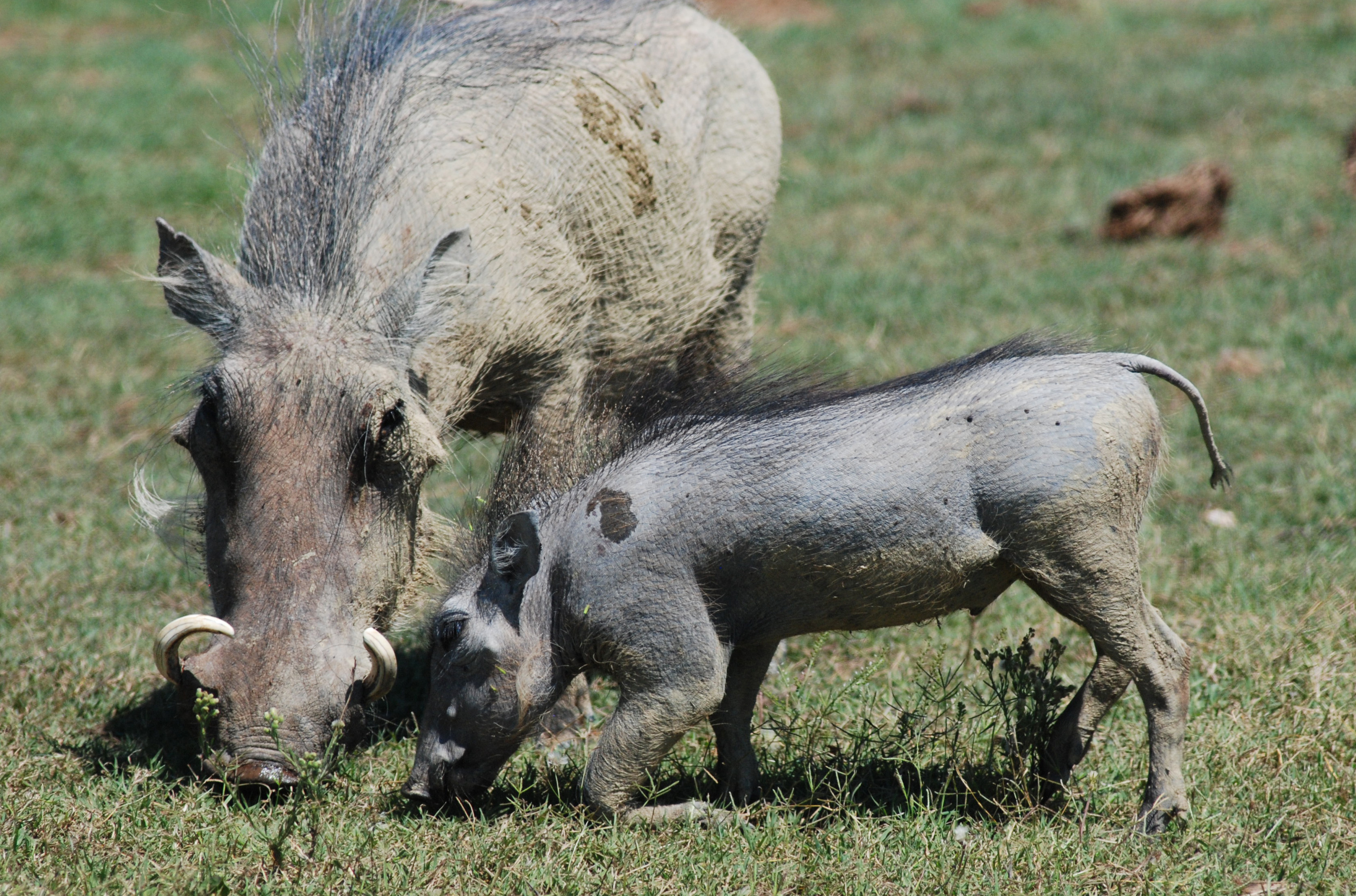 Warthog at Addo Elephant National Park